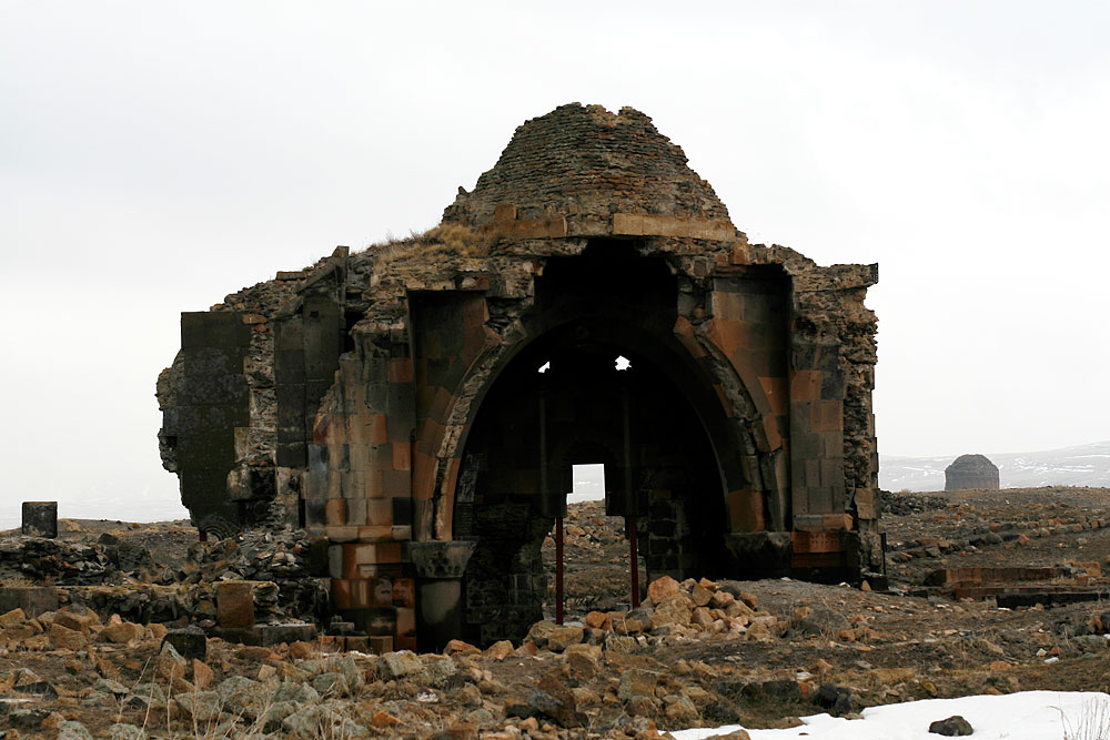 Ruins of Surp Arakelots, Ani, former capital of Armenia, now in Turkey.